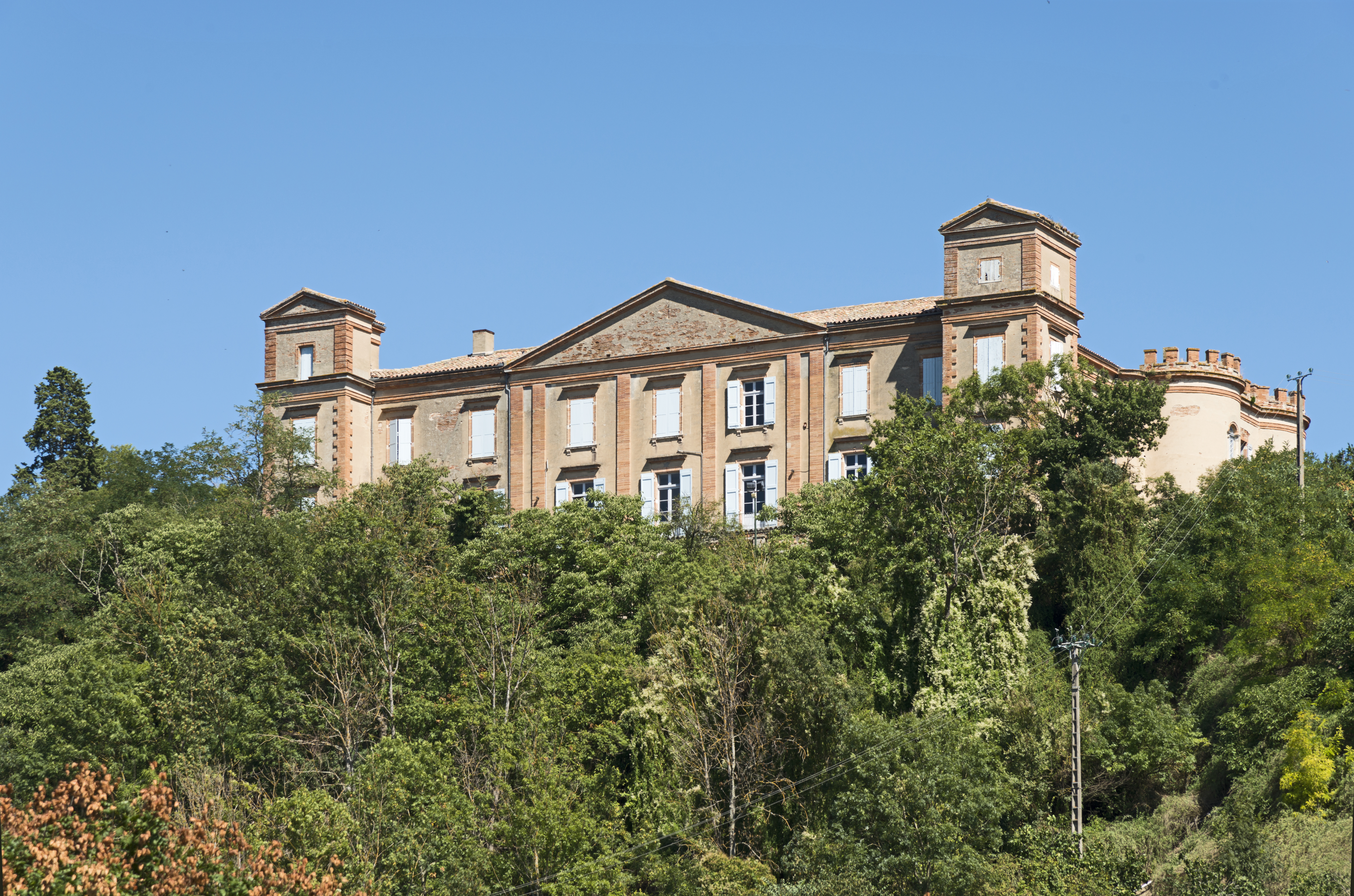 Castelnau-d'Estrétefonds. Castel maine facade.